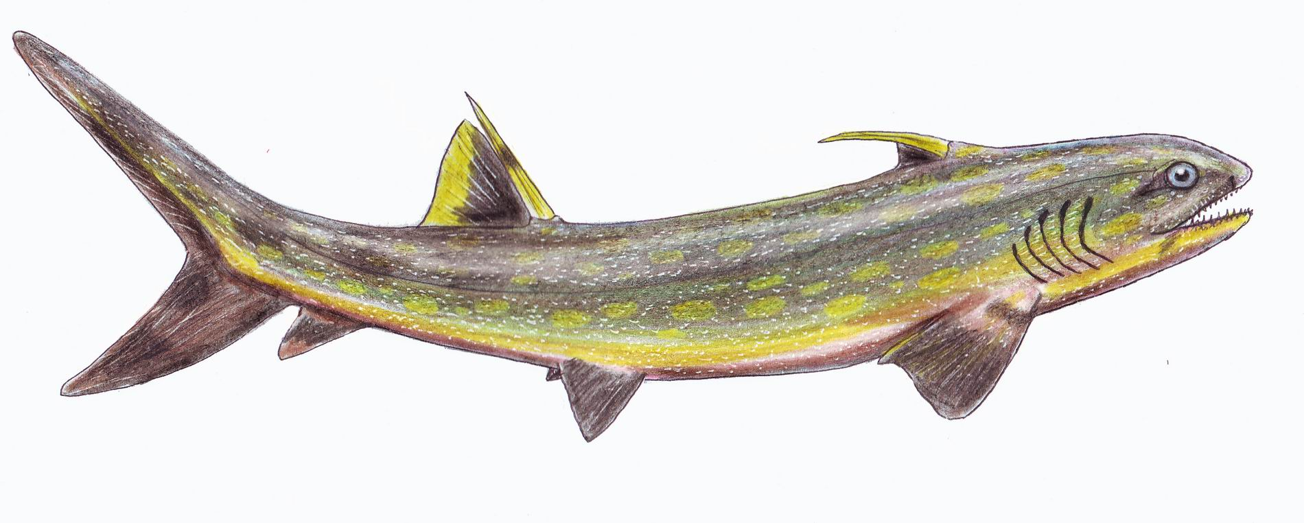 "Ctenacanthus" ("Sphenacanthus") costellatus from Early Carboniferous of Scotland